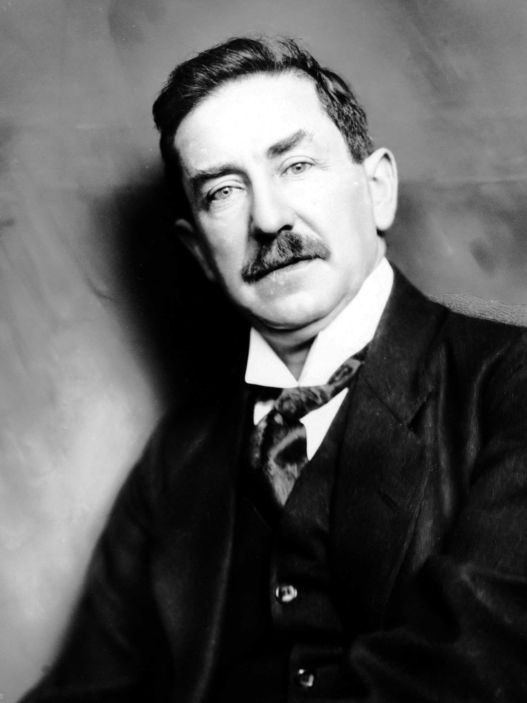 Heinrich Martin Krabbe (1868-1931). Schilder.